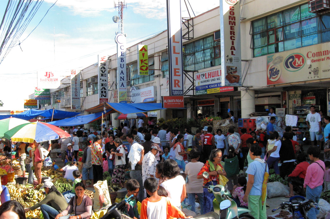 Market and commercial center in Tubigon, Bohol, the Philippines